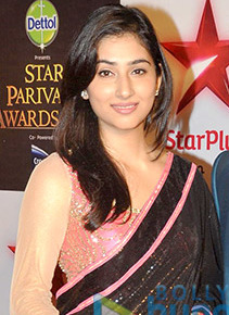 Parmar and Mehta at Star Parivaar Awards 2015